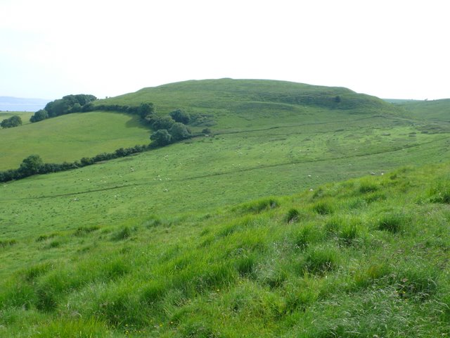 Green Hill Looking across Green Hill towards Chalbury hill fort which can be seen in the distance from close to the SW Coast path